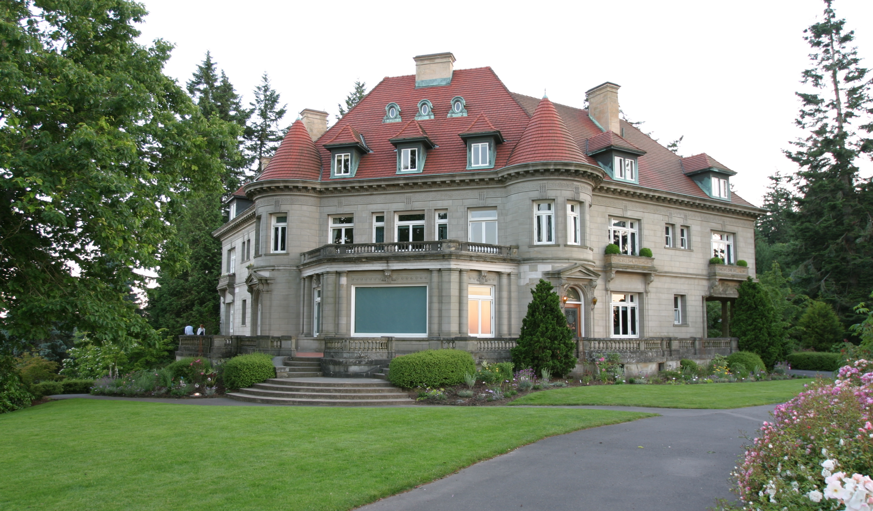 The Pittock Mansion in Portland, Oregon. The placard reads: This estate was the home of Oregon Trail pioneers Henry and Georgiana Pittock. Best known as the owner of The Oregonian, Henry remained at the paper's helm from 1860 until his death in 1919. His wide ranging investments made him very wealthy. A vigorous man, he began planning this mansion in 1909, at the age of 73. It was completed in 1914, and three generations of Pittocks occupied the home until 1958. After members of the Pittock family moved out, the mansion fell into disrepair. It was saved from demolition when the citizens of Portland raised the $225,000 purchase price. Opened the public in 1965 by Portland Parks & Recreation, Pittock Mansion operates with the generous support of Pittock Mansion Society.